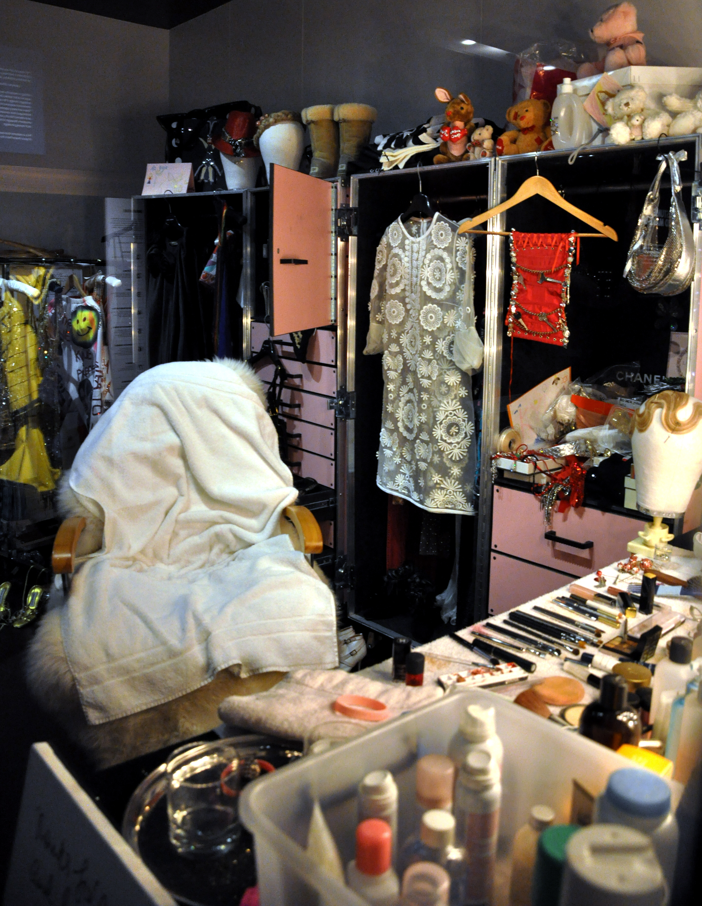 Kylie Minogue's dressing room (exact replica) for the 2007 tour „Showgirl: Homecoming“ Victoria and Albert Museum, London